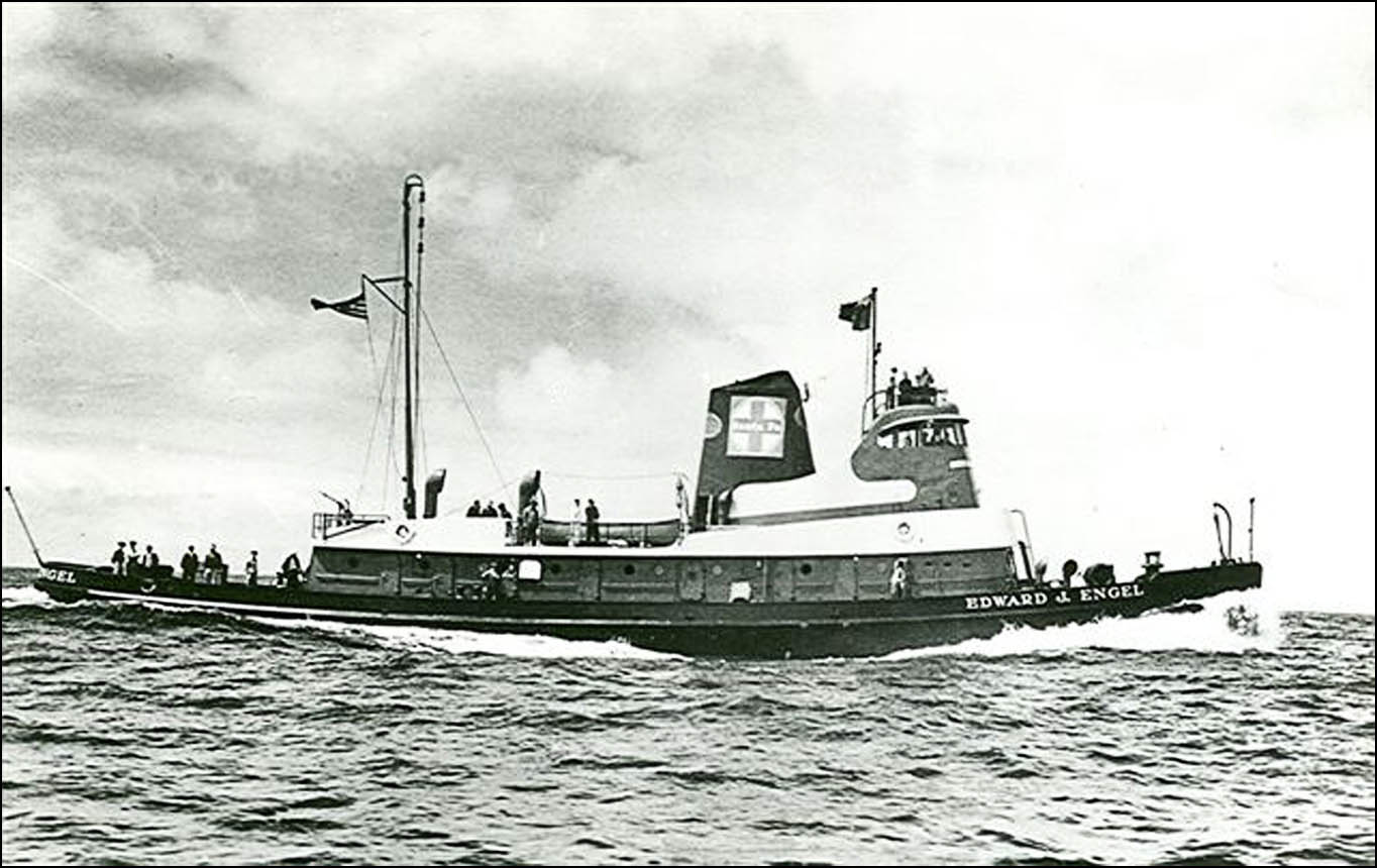 The Edward J Engel tugboat of the Santa Fe Railroad on a sea trial in 1945.